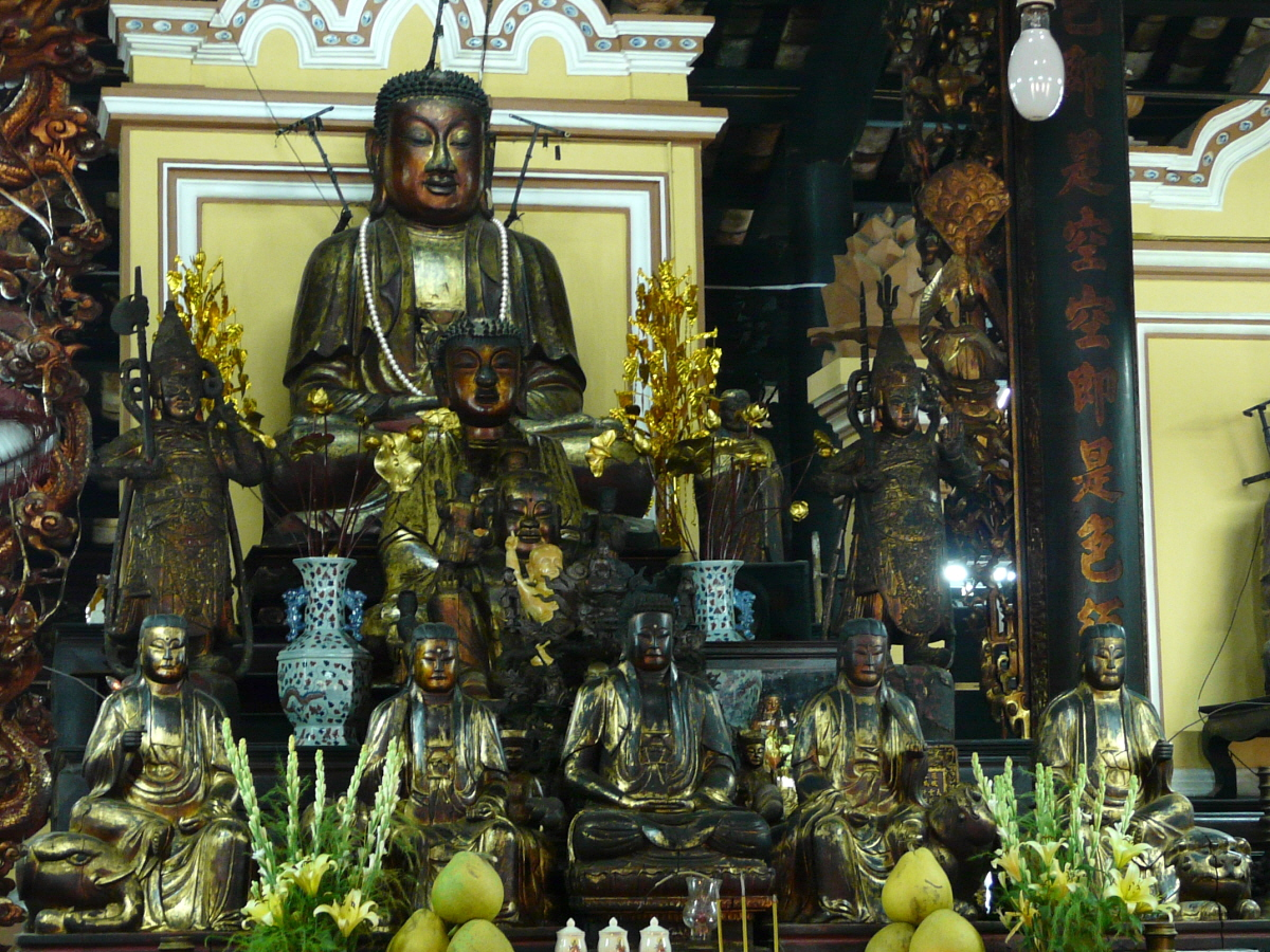 This is the main altar at Giac Lam Pagoda, Ho Chi Minh City. The seated figures are the Buddha and the principal bodhisattvas.